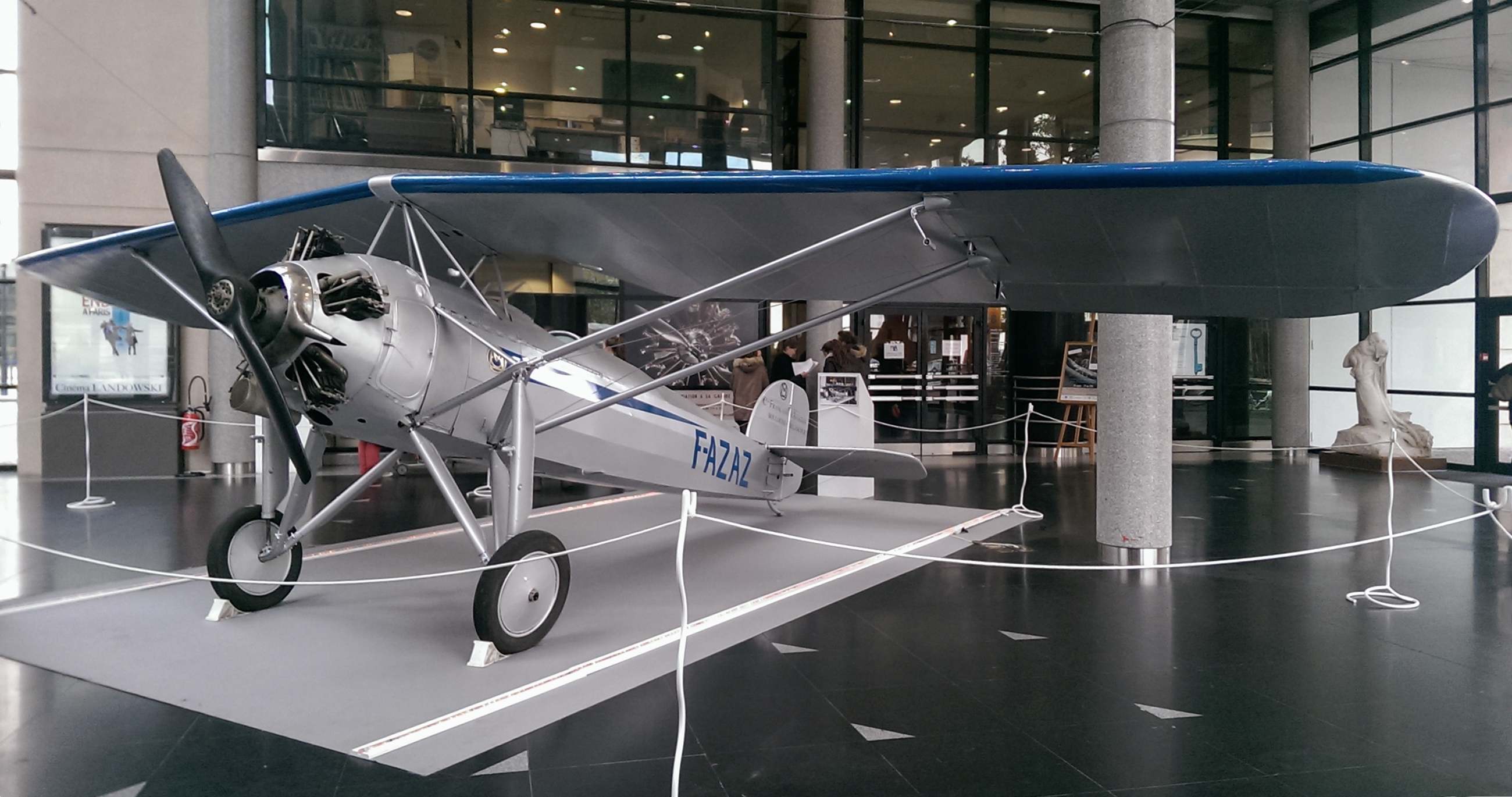 Morane-Saulnier MS.185 on display during an exhibition at the Musée des Années 30 (Museum of the 1930s) in Boulogne-Billancourt, France.